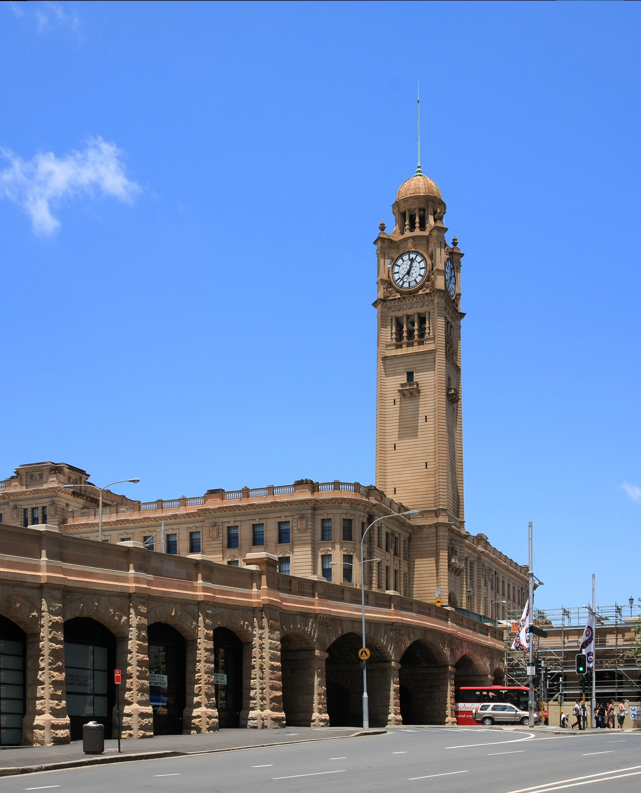 Central Station Sydney